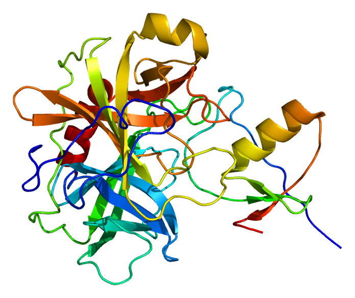 Structure of the SPINK1 protein. Based on PyMOL rendering of PDB 1cgi.